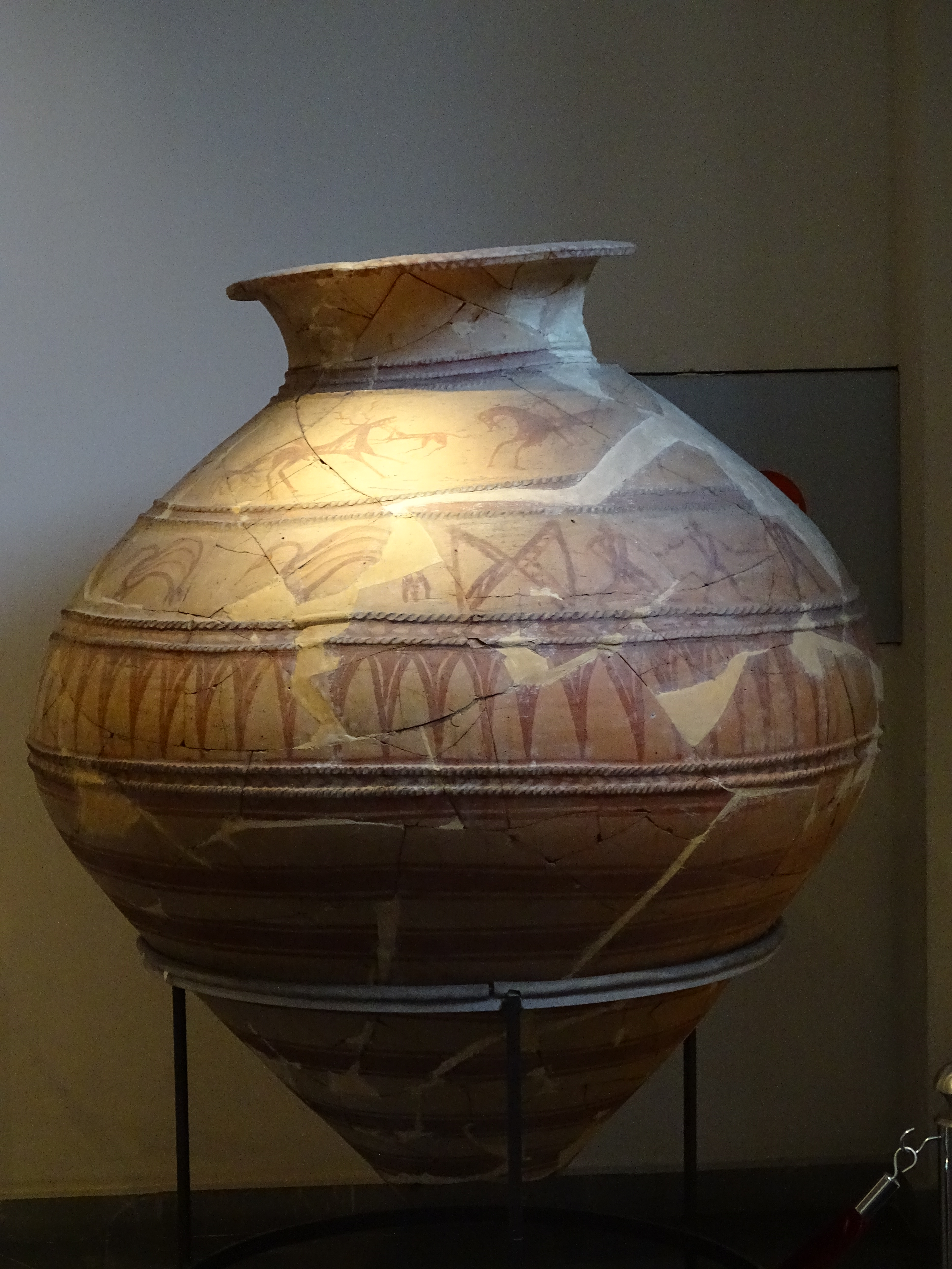 Ornamented quevri exhibited in the National Museum of Tbilisi. This kind of vessel is used for winemaking in the traditional Georgian style. Usually, these kinds of vessels are buried in the ground, but this one was clearly intended for use above the ground inside a building.